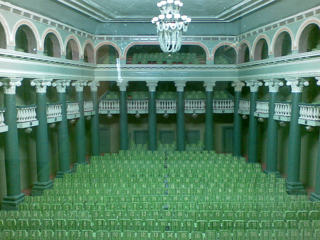 Tbilisi State Conservatoire (in Georgian: ???????? ?????????? ?????????????) is the State Conservatoire of Georgia, located in the capital Tbilisi. The Tbilisi Conservatoire was founded on 1 May 1917 under the directorship of N. Nikolaev. It was formally recognised by the Russian Musical Society as a conservatoire later that year. A rival conservatoire was also founded in 1921 by D. Arakishvili, and it was not until 1924 that the situation was resolved by the Soviet regime in favour of the original foundation. Since 1947 it has borne the name of Georgian singer Vano Sarajishvili.